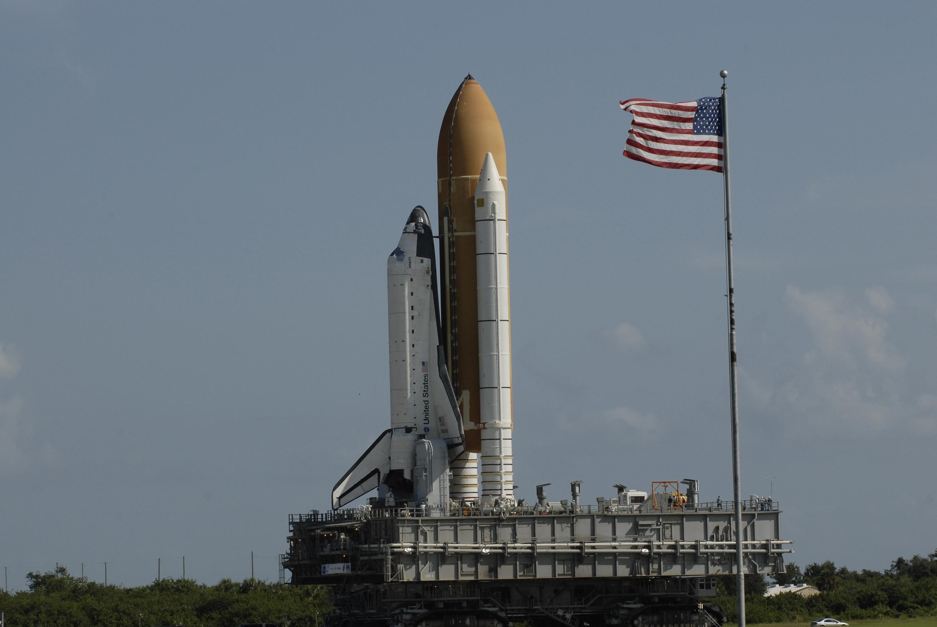 The American flag flies on the NASA News Center grounds at NASA's Kennedy Space Center, giving witness to the passage of space shuttle Atlantis as it rolls out to Launch Pad 39A. The shuttle stack, with solid rocket boosters and external fuel tank attached to Atlantis, rest on the mobile launcher platform, as the crawler-transporter journeys to the pad. Atlantis is scheduled to launch on the STS-125 mission to service the Hubble Space Telescope. Launch is targeted for Oct. 8, 2008.